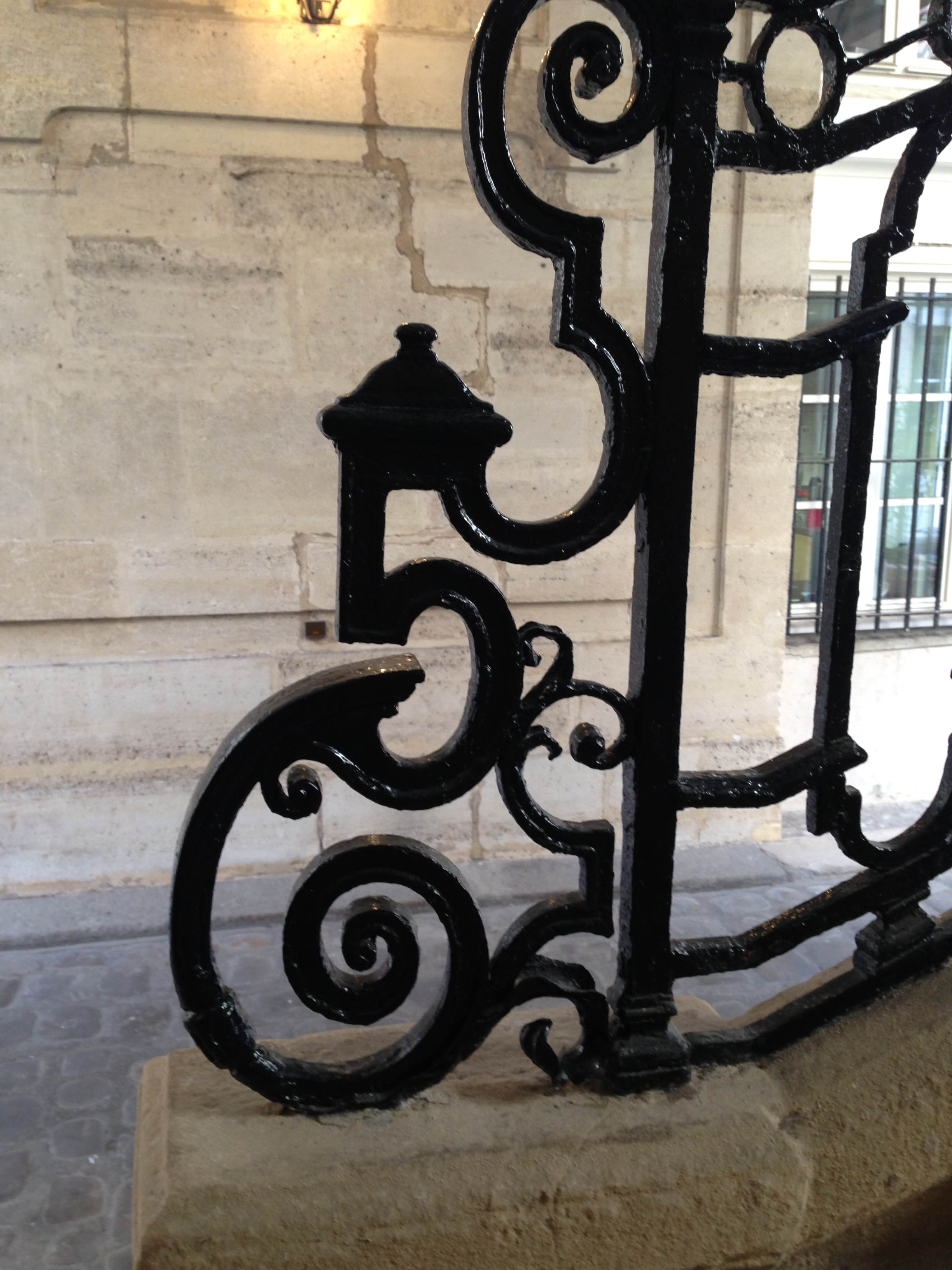 A distinctive 5-shaped ornamentation (for Nicolas V) on the guardrail of the grand staircase of the monument historique building Hôtel de Villeroy in Paris.